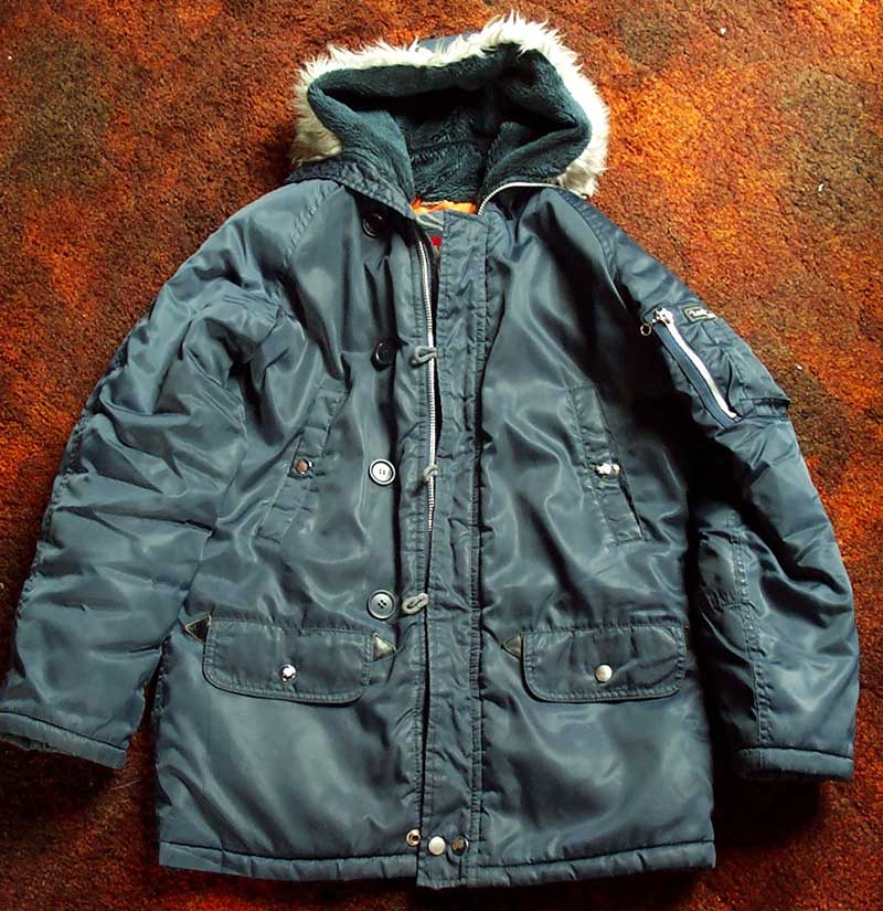 A typical "school type" snorkel parka, very common in the 1970s and 1980s. This particular example is of the Lord Anthony brand, one of the better makes of the time.